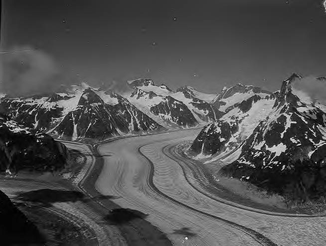 Gilkey Glacier, valley glacier with banded ogives and dark moraines, 1955